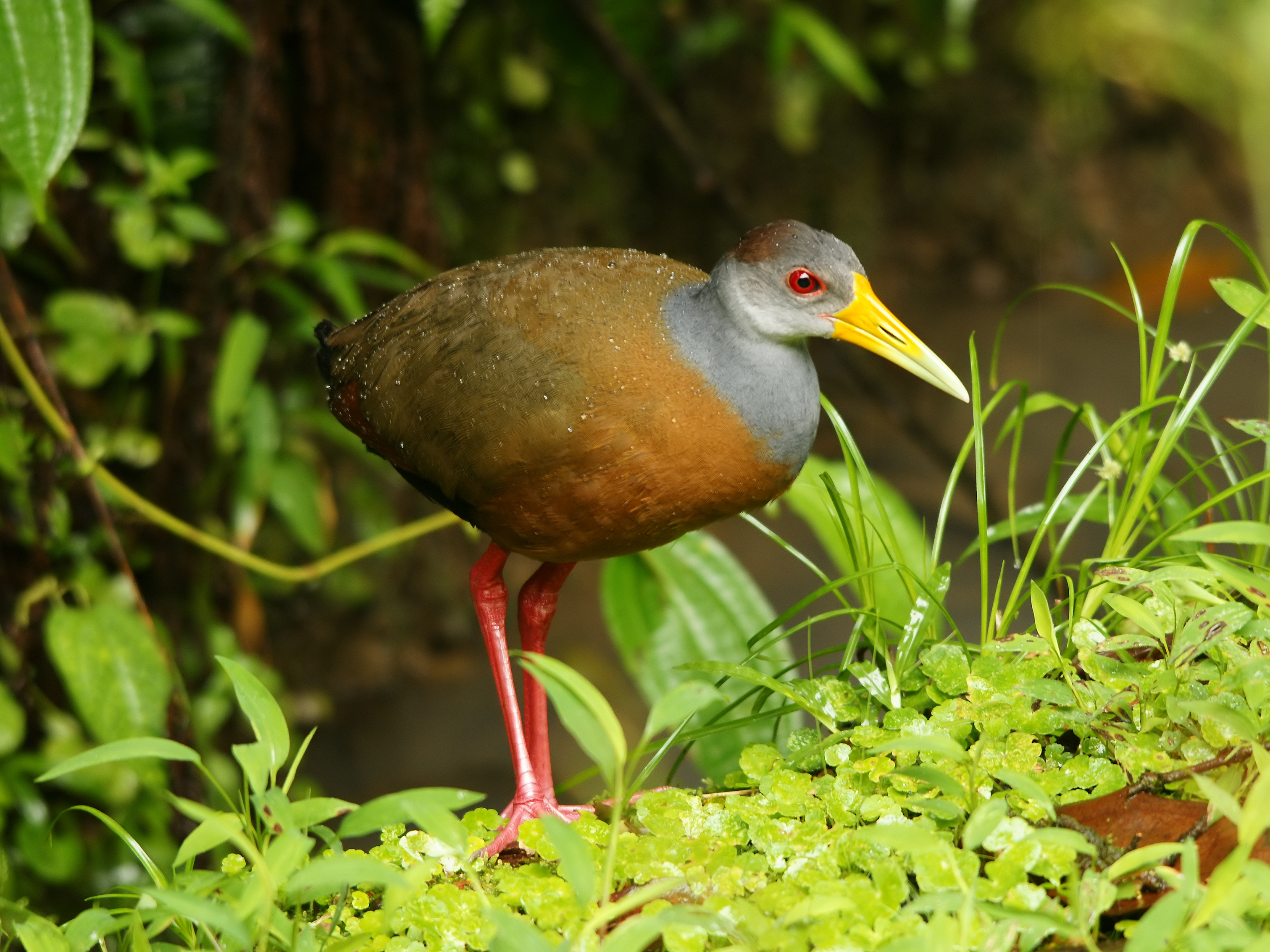 Rufous-naped Wood Rail Aramides albiventris plumbeicollis Zeledon, 1888 at Rara Avis near Las Horquetas, Costa Rica.